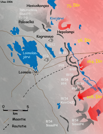 Map of Battle of Kollaa between Finland and USSR, action in March 1940